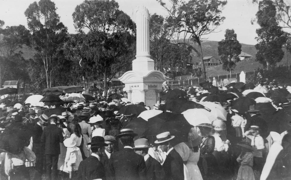 Crowds at the unveiling of Linda Memorial Monument, Mt Morgan, 1909 Linda Memorial was built in memory of the twenty-six miners killed in mine accidents in Mount Morgan between December 1894 and July 1909.